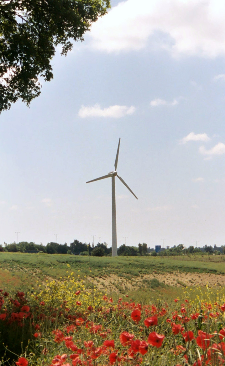 Photo of the RES wind turbine